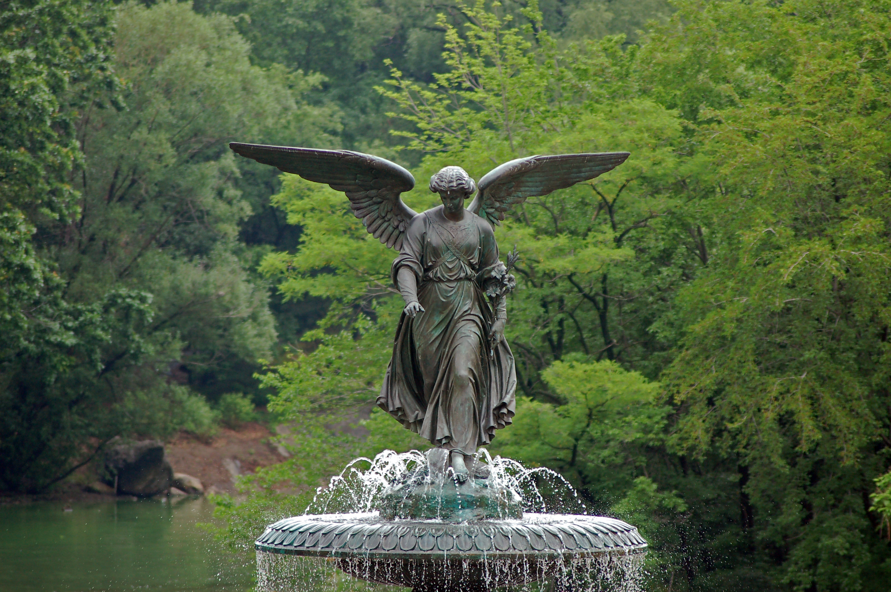 Bethesda Fountain